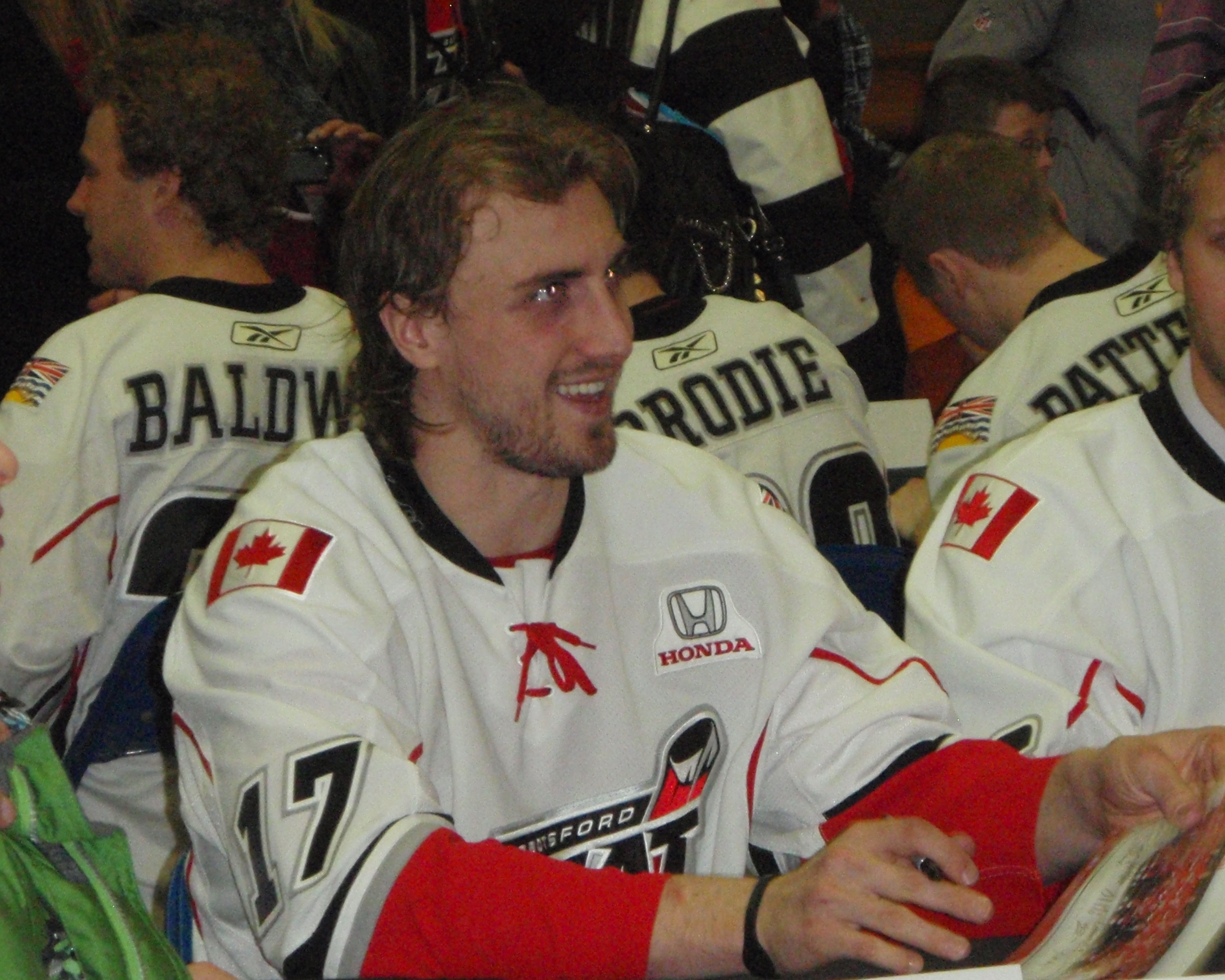 Members of the American Hockey League's Abbotsford Heat signs autographs for fans. Photo taken in Calgary, Alberta on February 18, 2011.